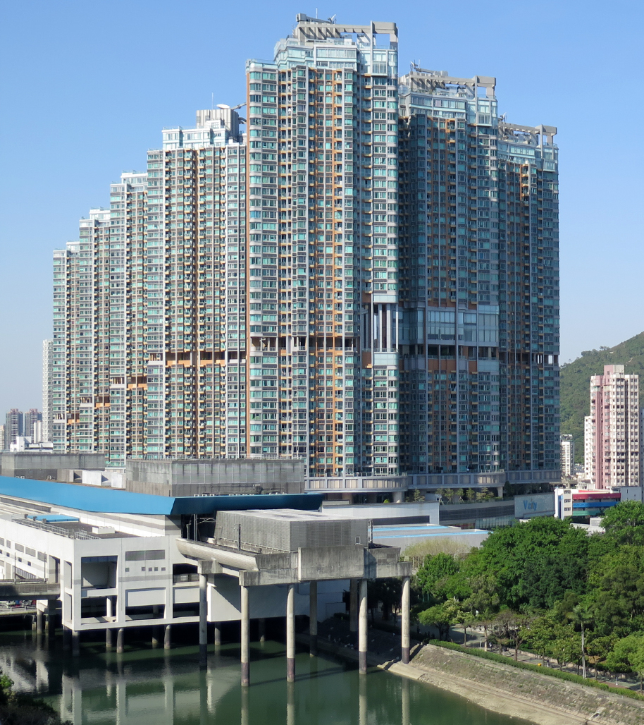 Century Gateway